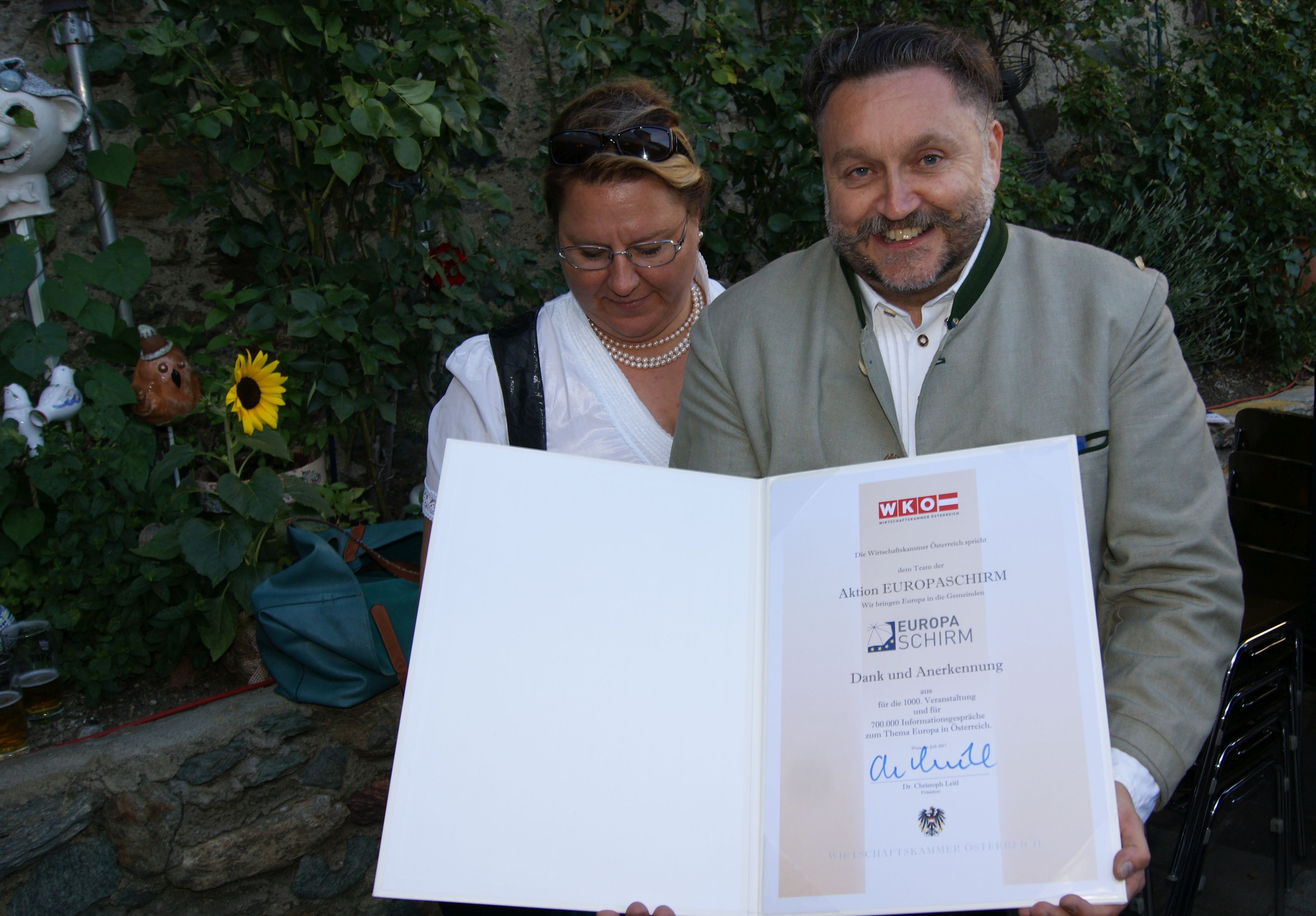 Karl-Heinz Wanker and his wife in Forchtenstein Castle in Neumarkt, Styria. Presentation at the occasion of the 1000 "Europe-Umbrella" event.